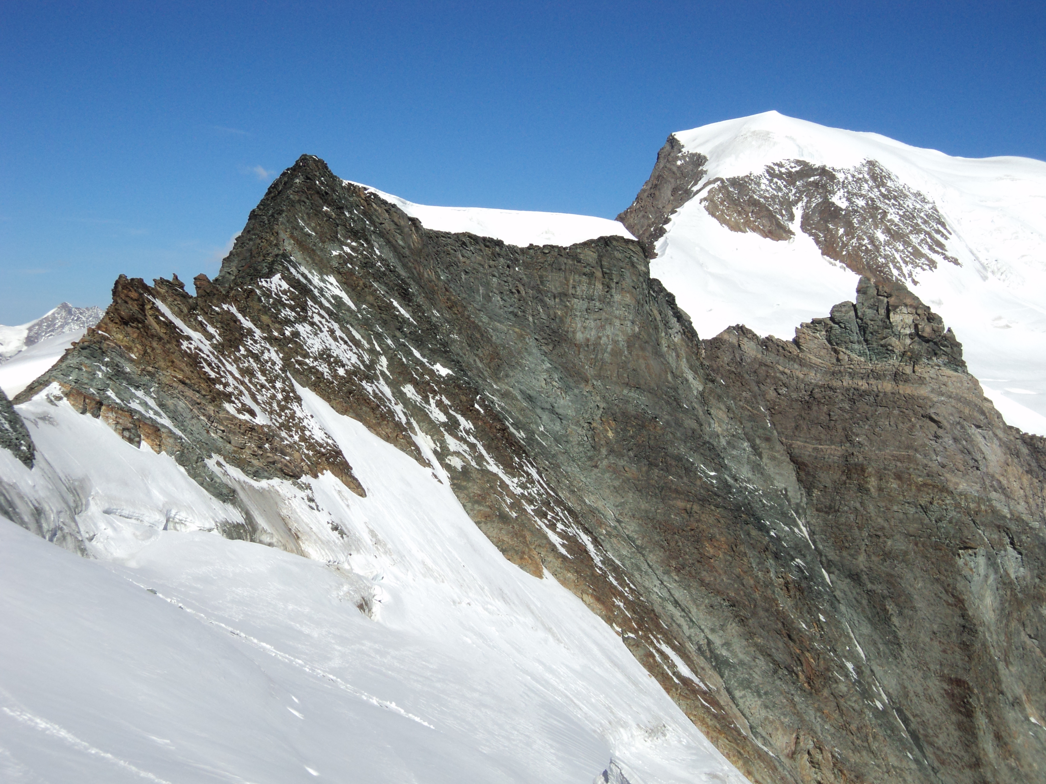 Feechopf (left) and Alphubel (right). Mischabelhörner. Pennine Alps